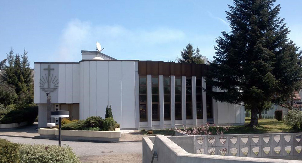 Neuapostolische Kirche Linz - Außenansicht